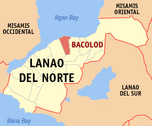 Map of the Lanao del Norte showing the location of Bacolod